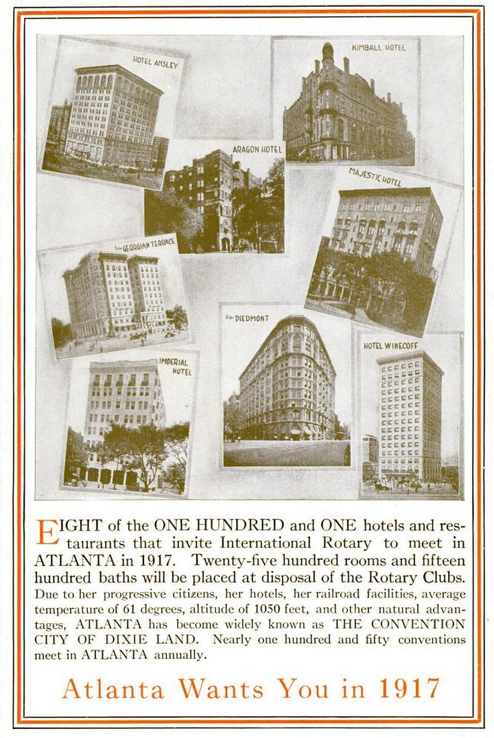 Atlanta Convention Bureau Ad 1917